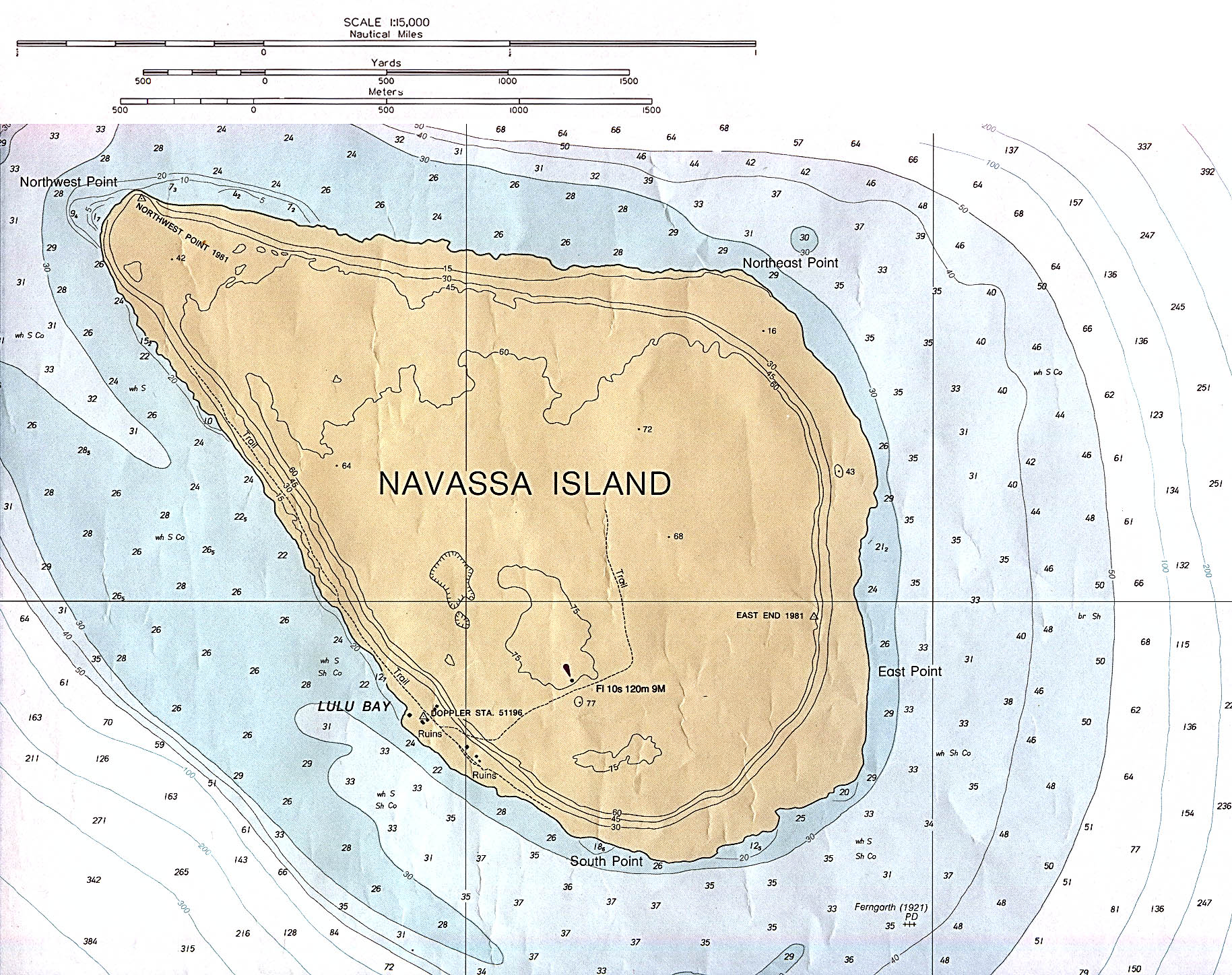 Navassa Island (Nautical Chart) original scale 1:15,000 Defense Mapping Agency 1982, revised 1991.